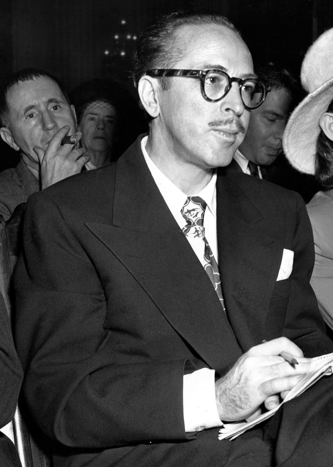 Colorado screenwriter and novelist Dalton Trumbo at House Un-American Activities Committee hearings, 1947